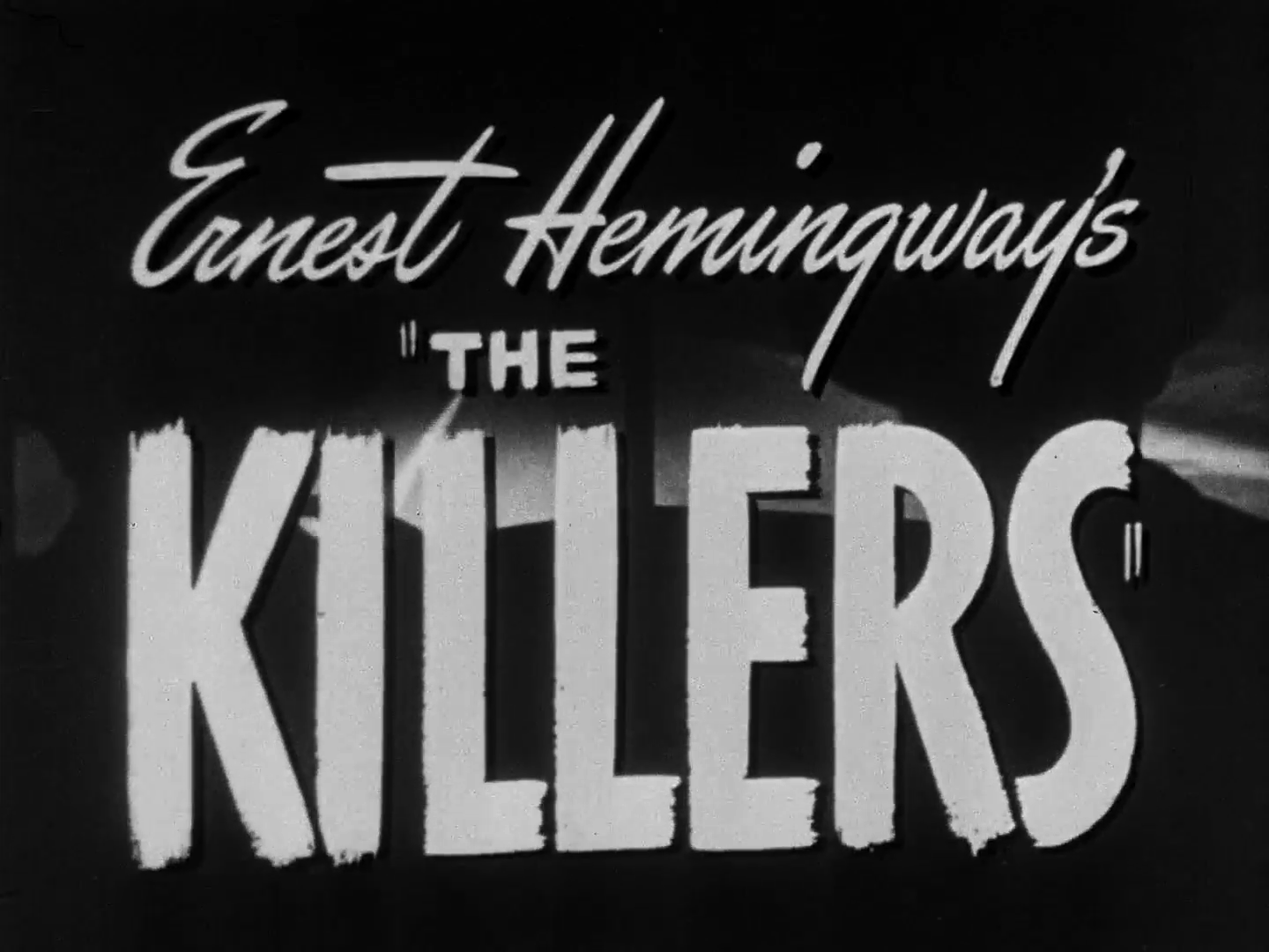 Screenshot of the trailer of "The Killers"